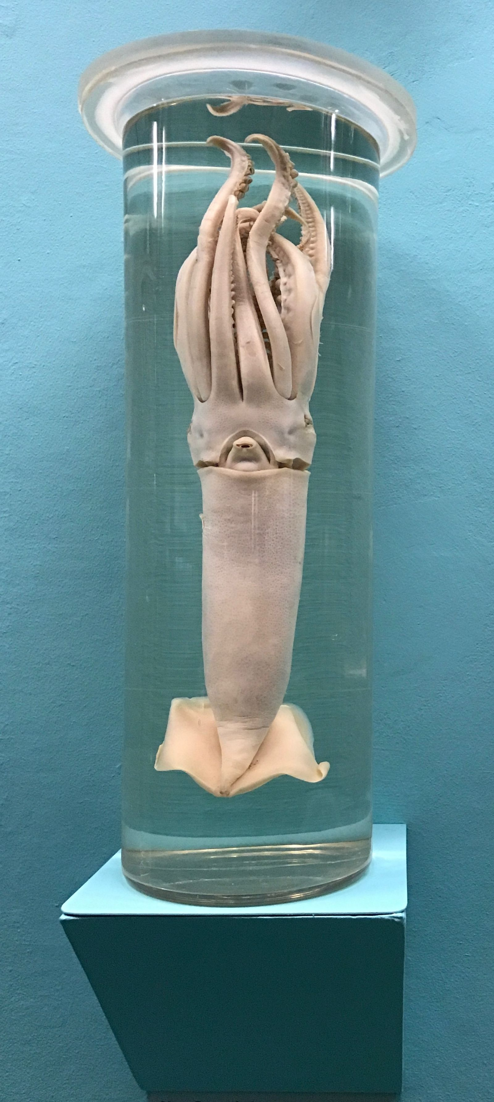 Northern Shortfin Squid Illex illecebrosus preparation of the Museum of Natural History in Vienna